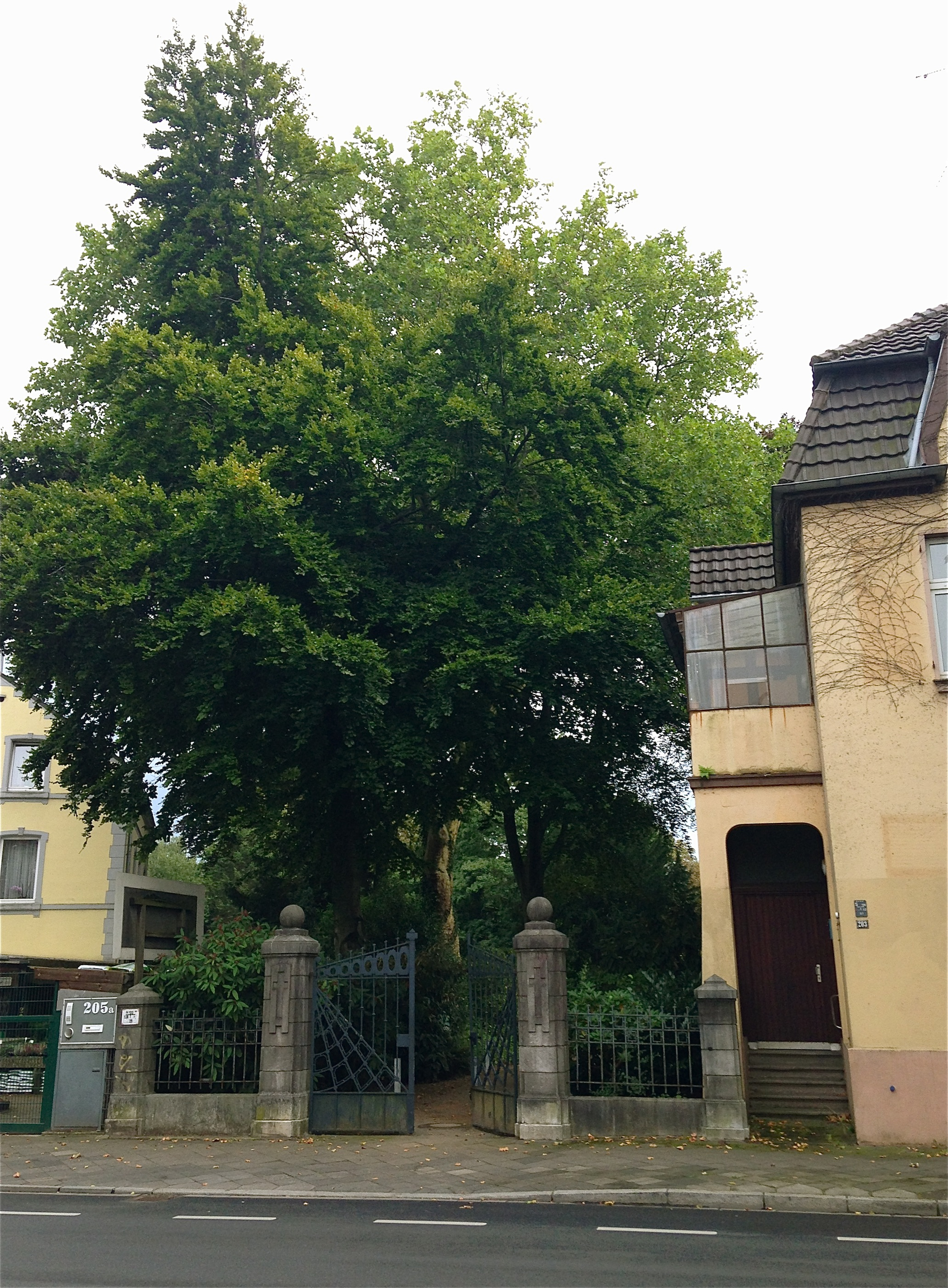 Eller cemetery in Düsseldorf, Germany, entry gate from 1907, address: Werstener Feld 203